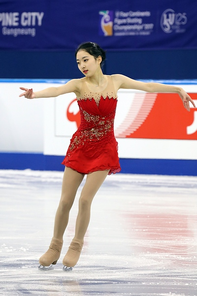 Zijun LI CHN – 7th Place